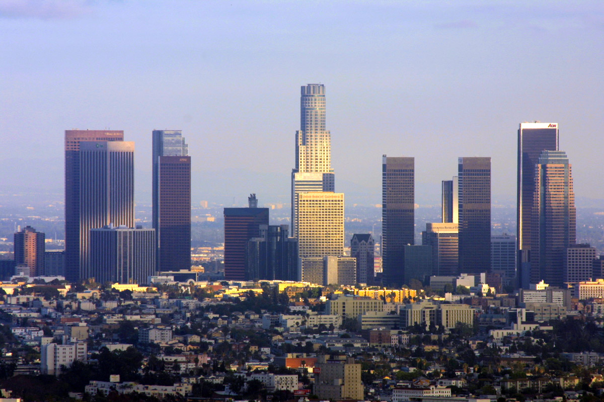 Downtown Los Angeles, half an hour before sunset